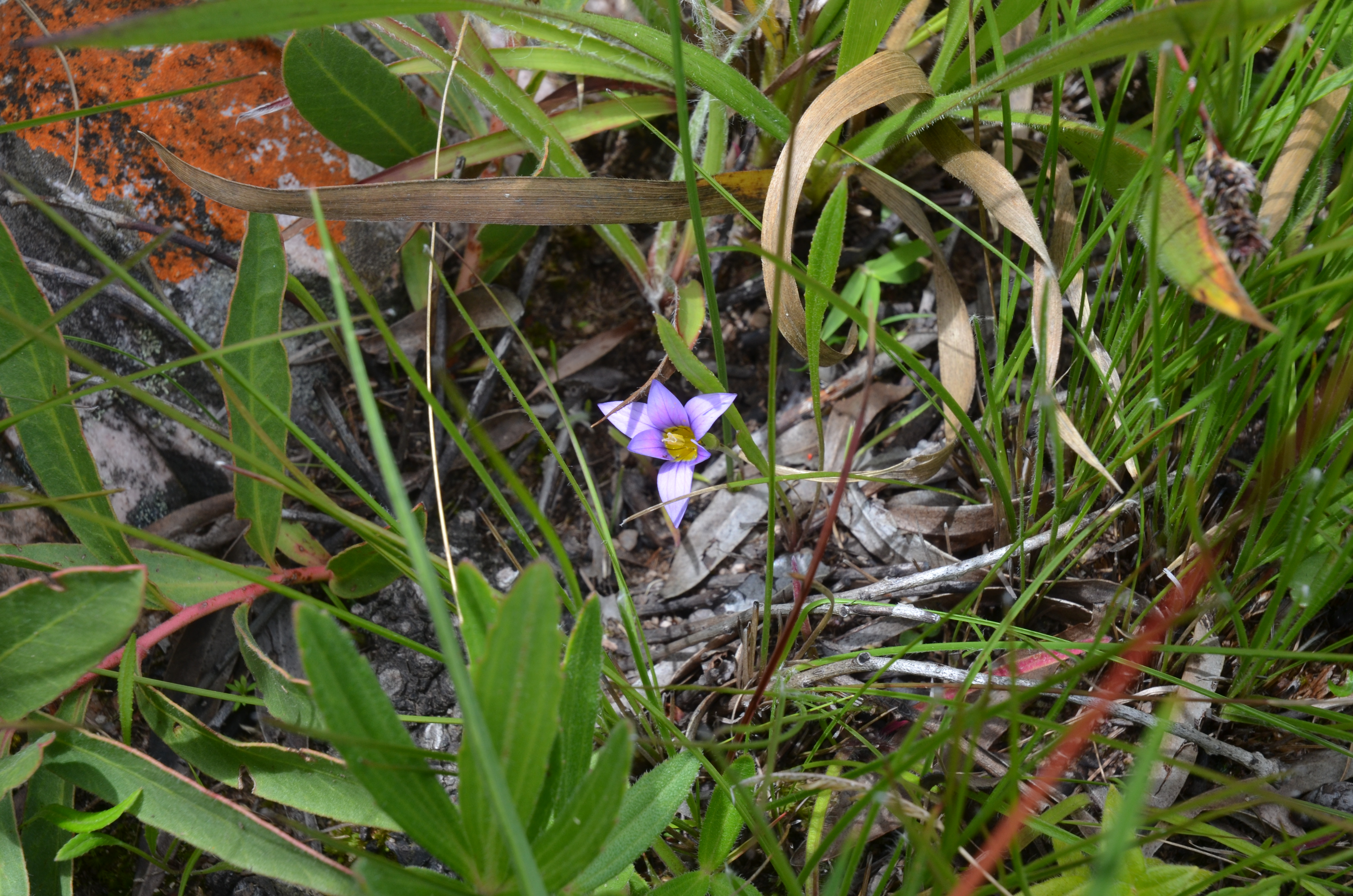 Picture taken in Kitulo National Park.